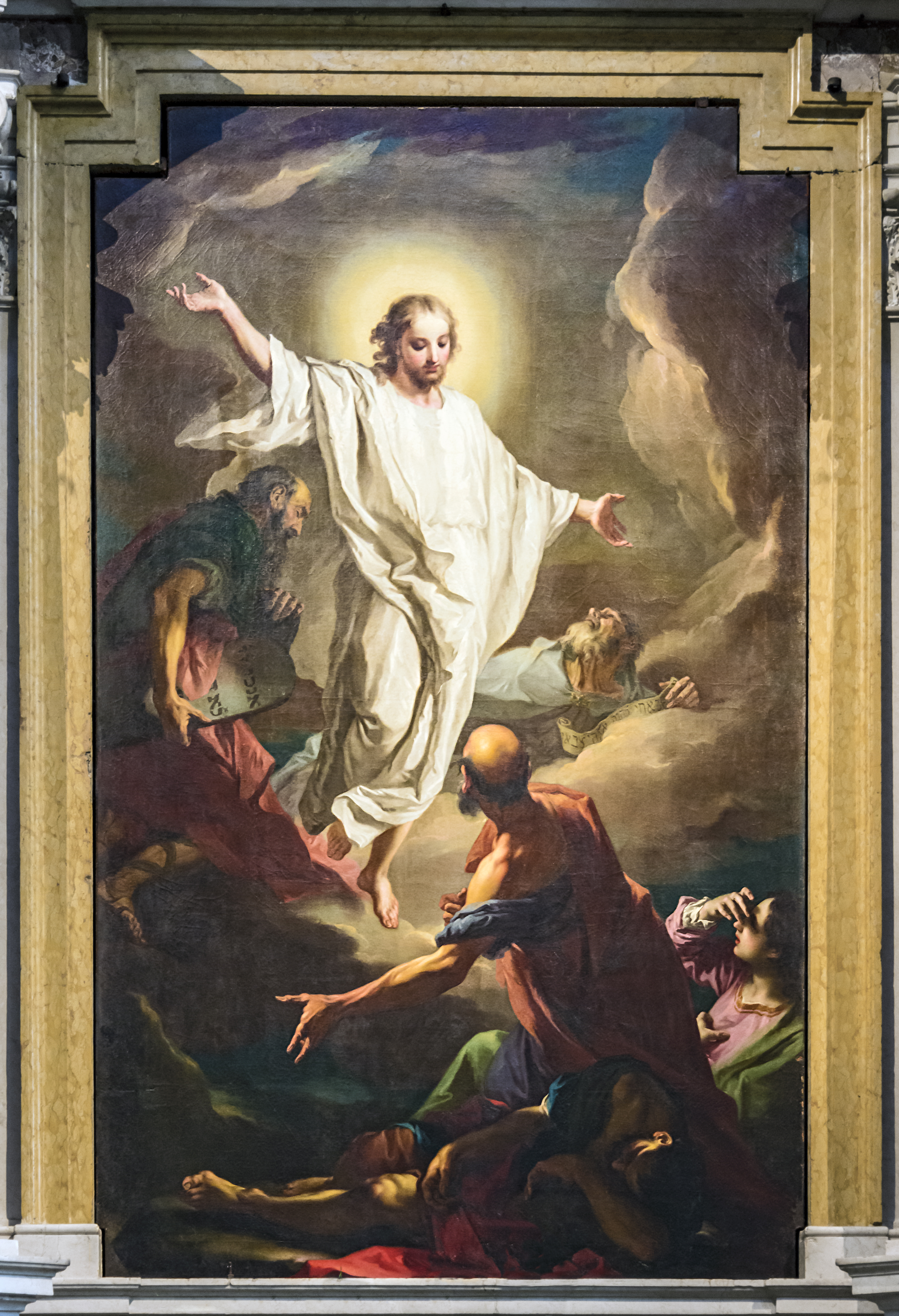 Cathedrale Santa Maria Matricolare. Emilei chapel. Transfiguration of Christ on the altar by Giambettino Cignaroli (1741).